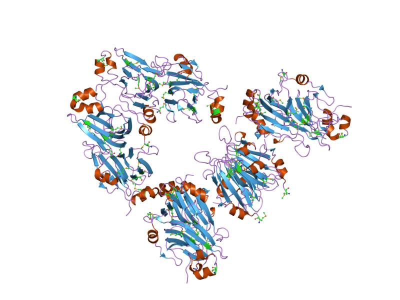 Cartoon representation of the molecular structure of protein registered with 1yud code.